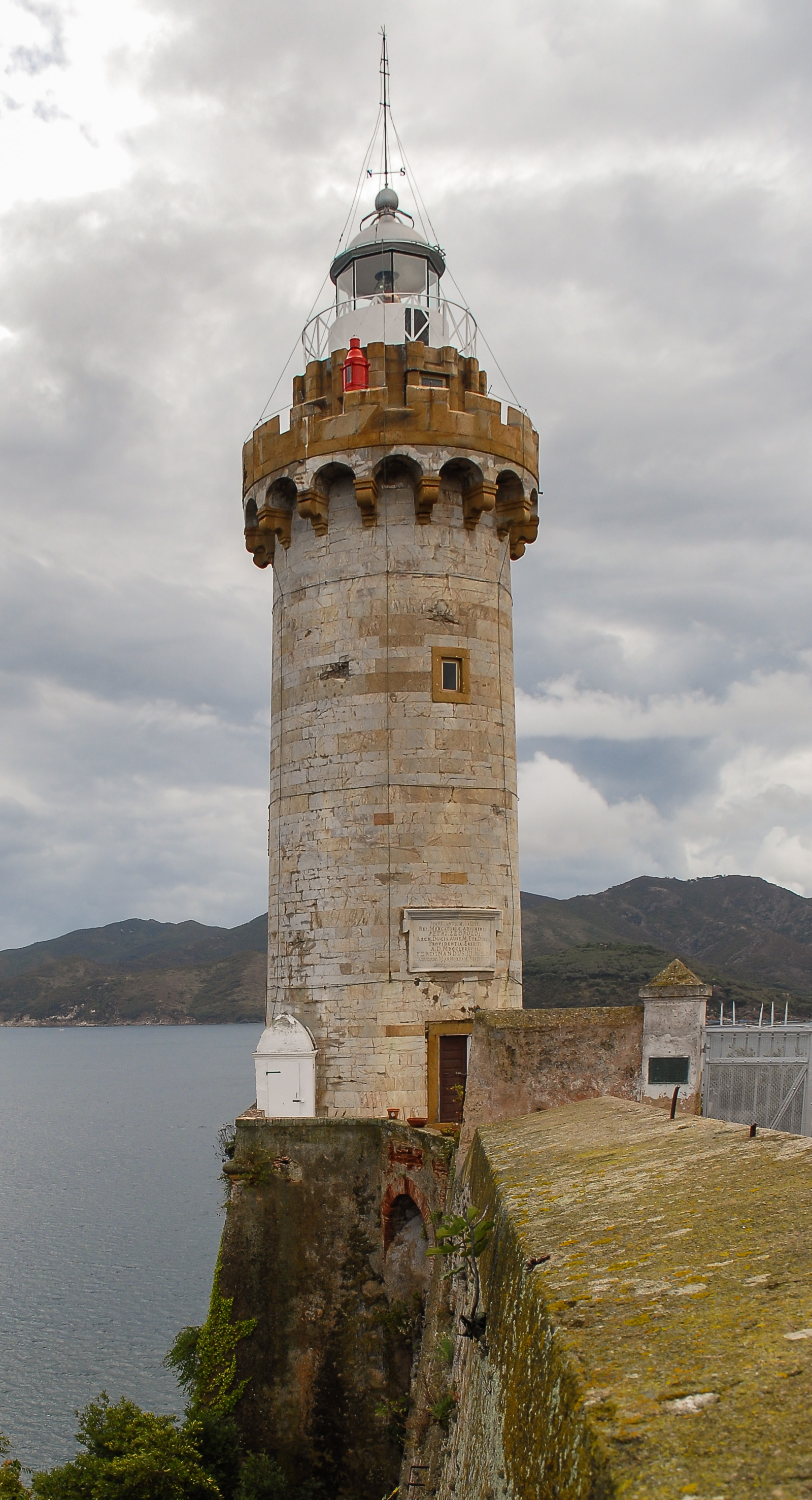 Lighthouse in Portoferraio, Elba Island